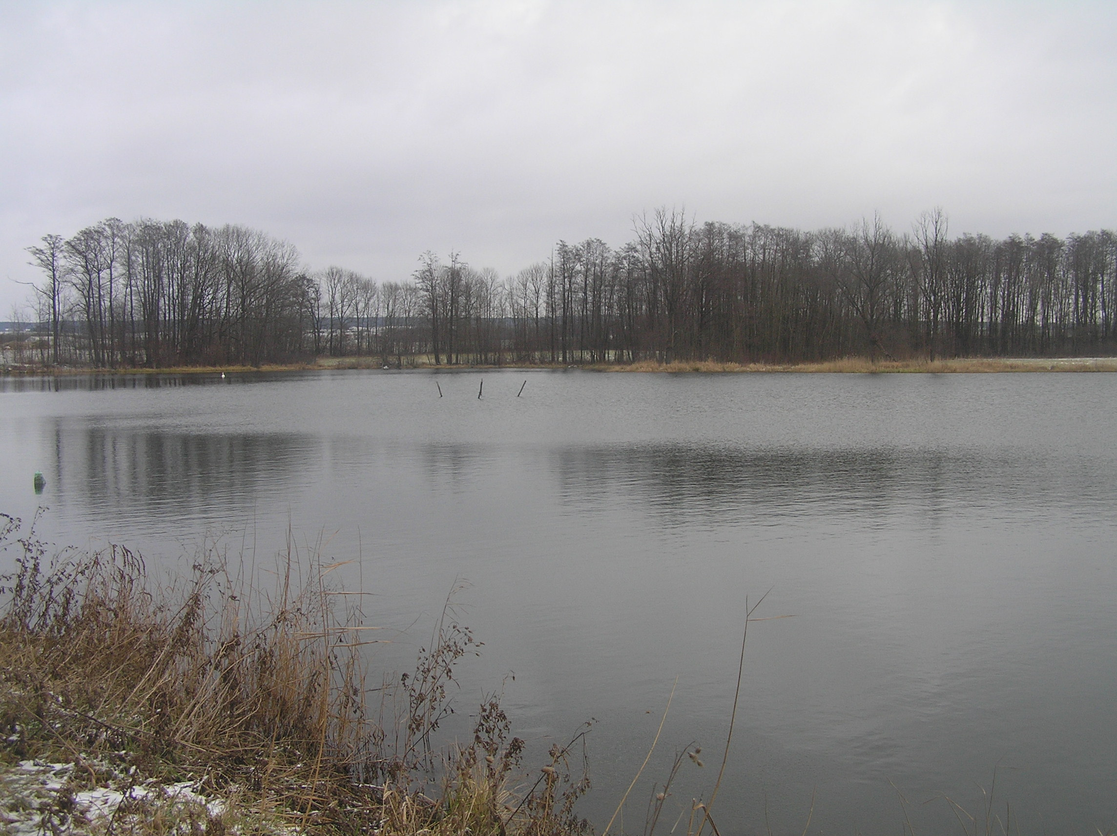 Heřmánek is the pond near the villages České Heřmanice and Horky, Pardubice Region, Czech Republic